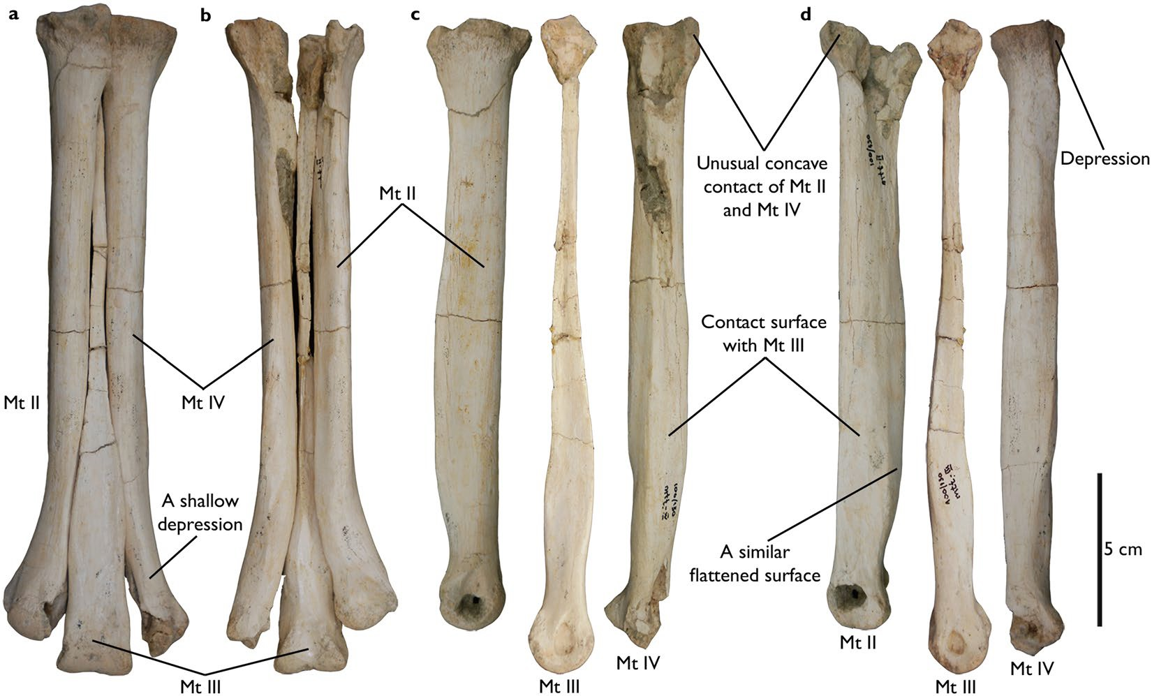 Metatarsals of Aepyornithomimus tugrikinensis. (a), in anterior, (b), in posterior, (c), in medial, and (d), in lateral views. Abbreviations: (Mt II, Mt III, and Mt IV), the second, the third, and the fourth metatarsals.